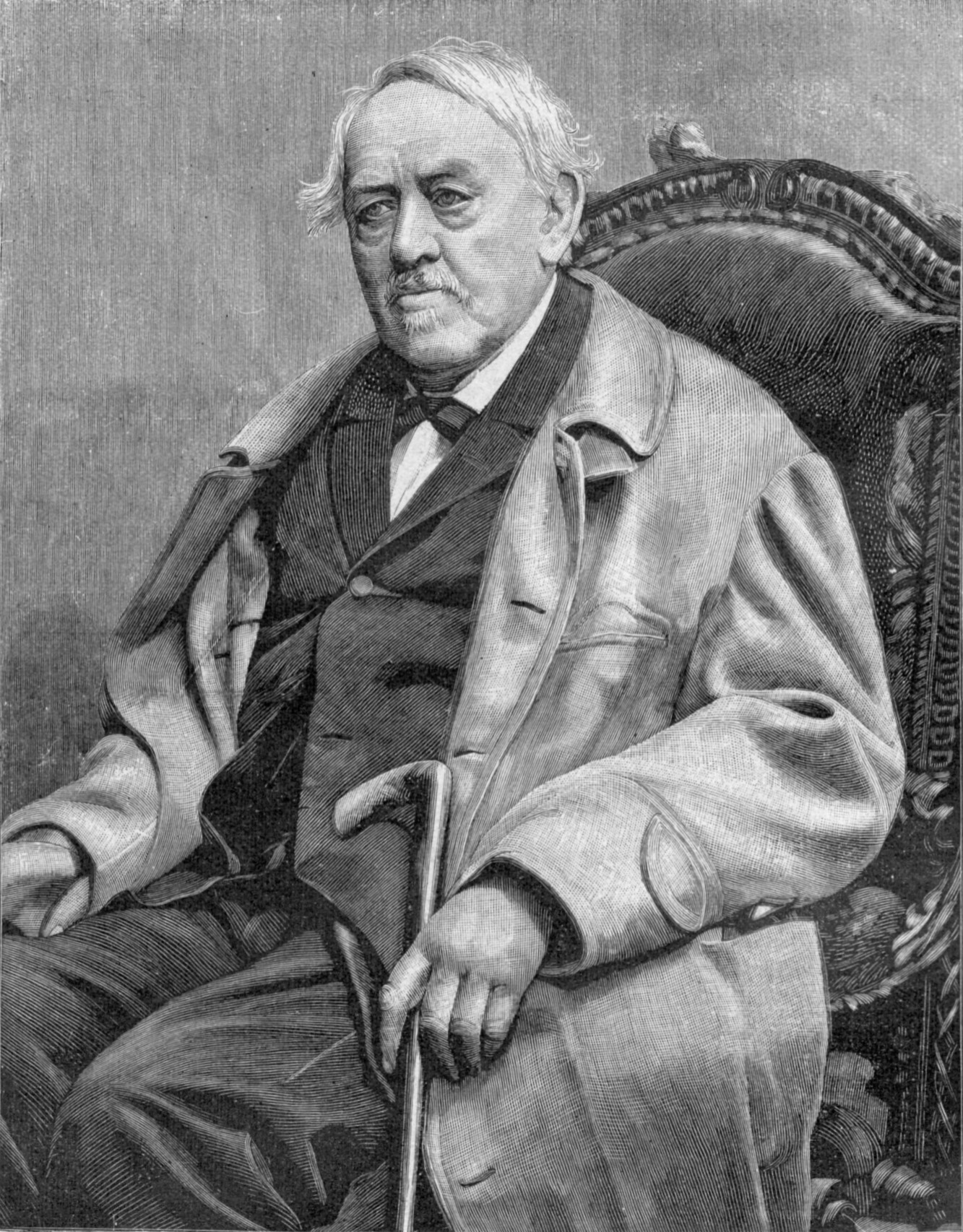 Portrait of the writer